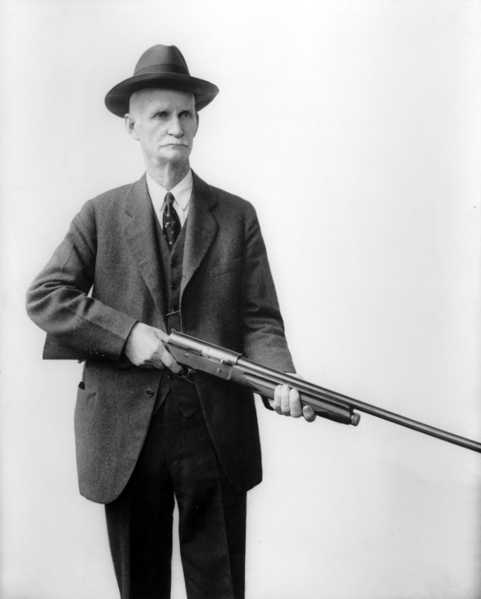 American gunmaker John Moses Browning with with his Auto 5 shotgun (circa early 1900).